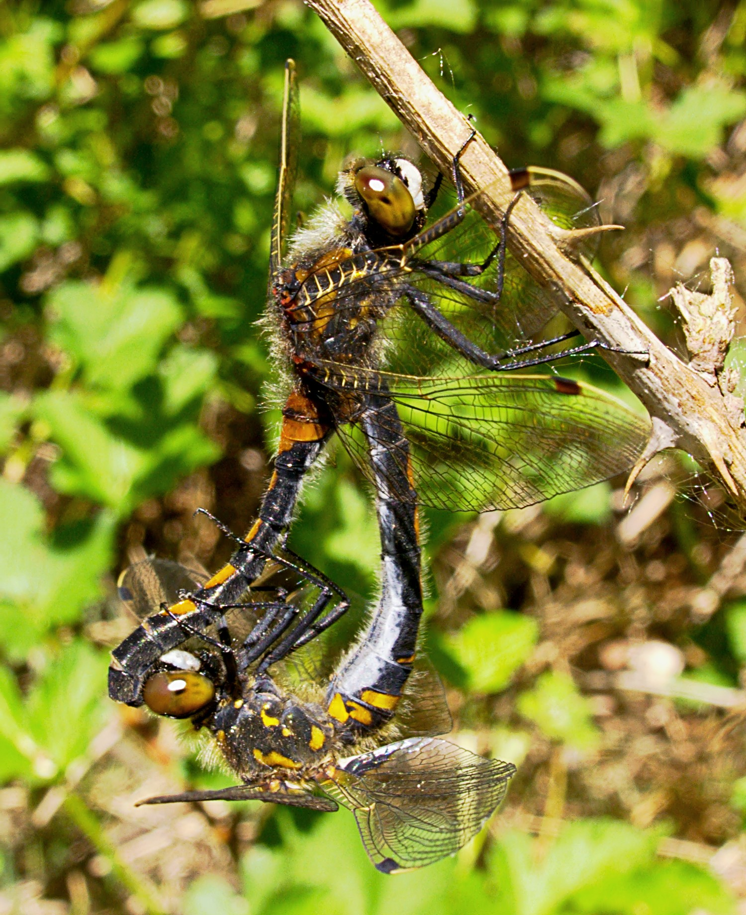 Name: Leucorrhinia rubicunda, couple. Family: Libellulidae. Location: Münster, NRW, Germany